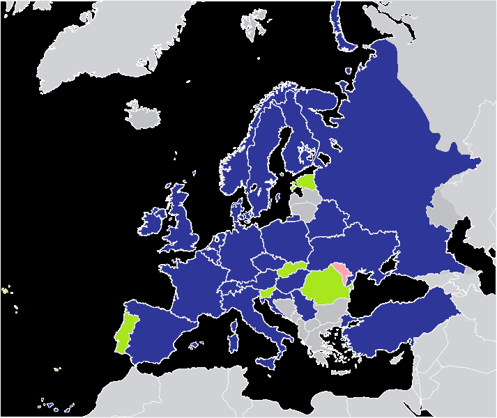 Full Members of the European Federation of American Fotball Associate Members of the European Federation of American Fotball Administrator Members of EFAF